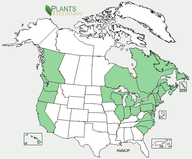 Ammophila range map